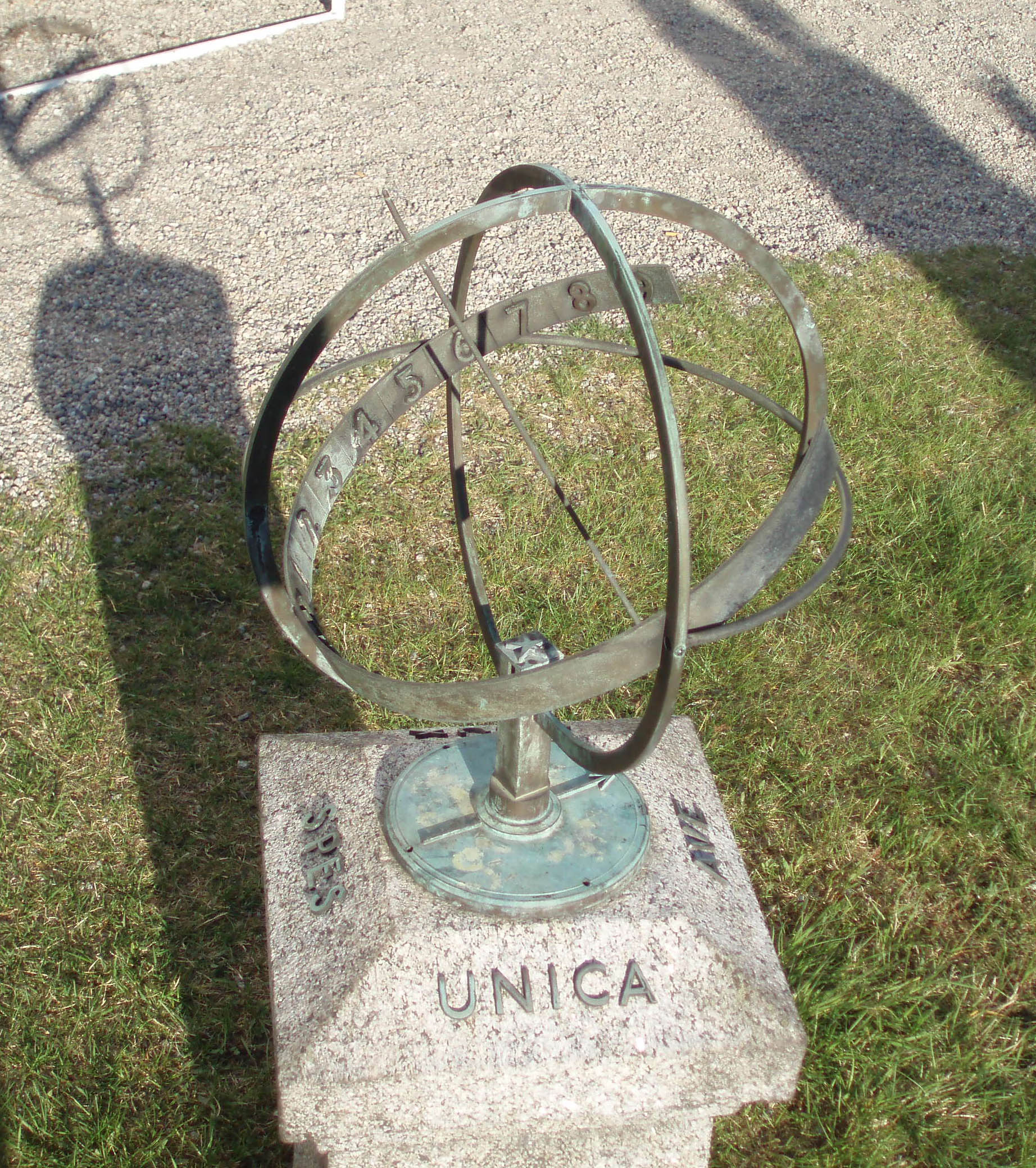 Sundial - Hisoey church, Norway. Own photo 2006-05-15 17:30 (local time). User:Friman